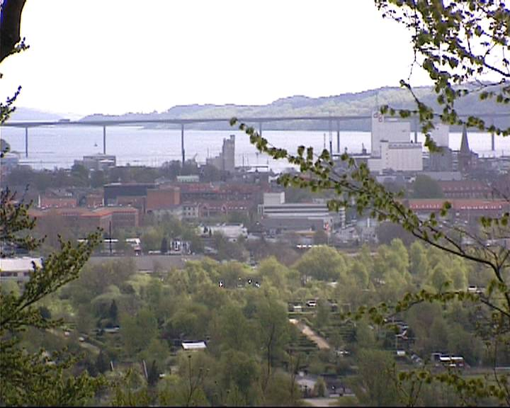 View from Himmelpind hill in Vejle, Denmark. The bridge in background is Vejlefjordbroen.